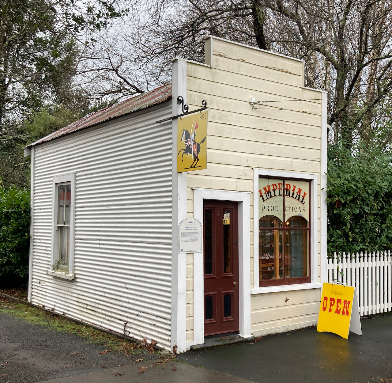 Imperial Productions shop and showroom, McMaster Street, Greytown, New Zealand. Once the town bootmaker, this has been Imperial Productions' shop since 1987.